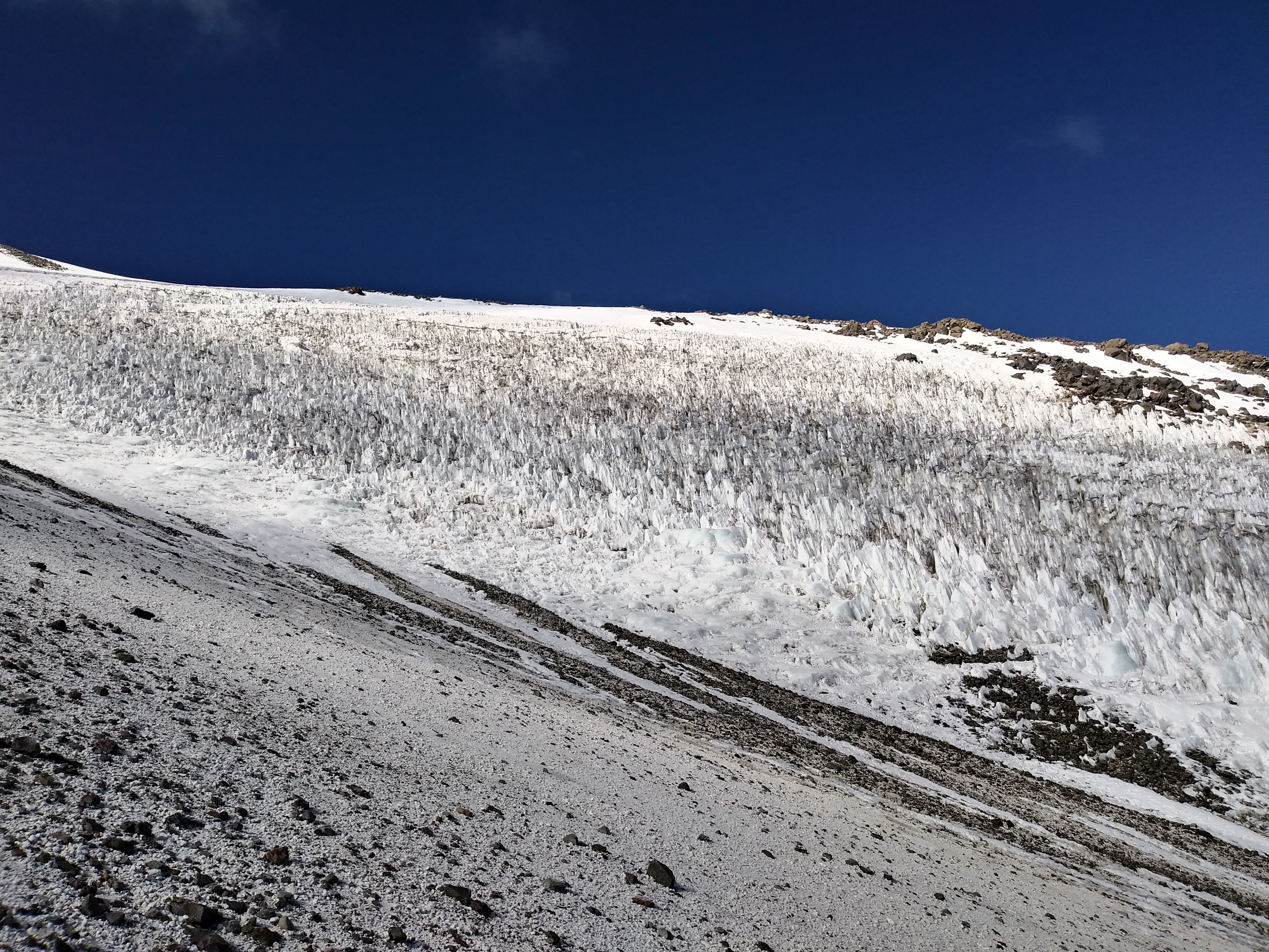 Penitentes field on northern slopes of Ojos del Salaldo in February 2020. Typical pentitente heights were 1-2 m.